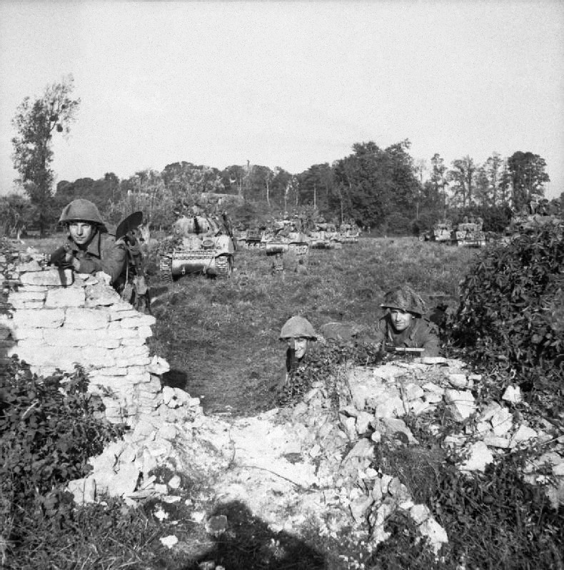 Infantry and tanks wait to advance at the start of Operation 'Goodwood'.